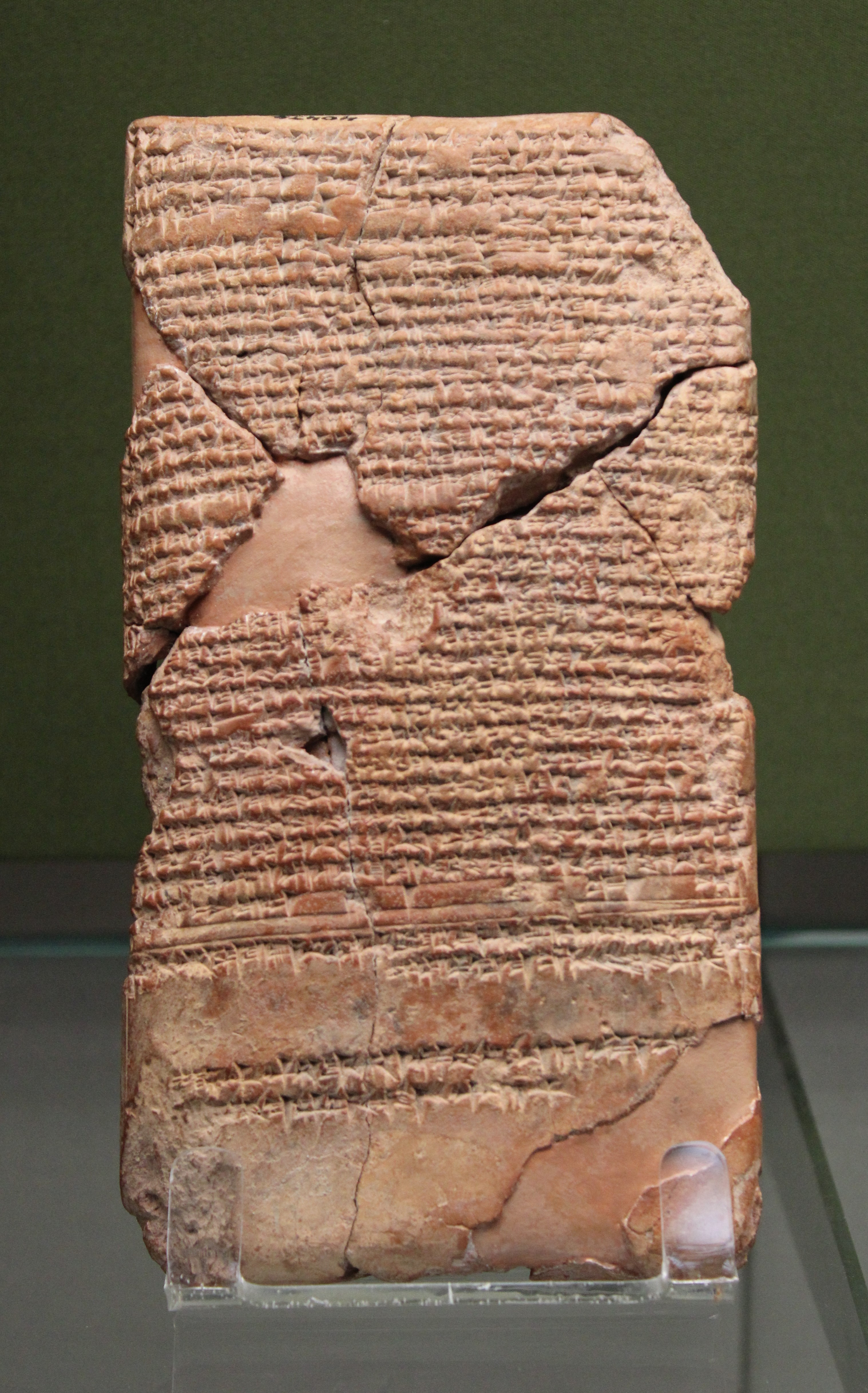 Tablet of the poem called "Lament of Nabû-šuma-ukîn". A Babylonian prince named Nabû-šuma-ukîn, son of Nebuchadnezzar II, in custody, makes an appeal to the god Marduk. He his thought to be the crown prince and future king, Amel-Marduk/Evil-Merodach. British Museum Beginning of the 6th century BC. BM 40474. Edition: I. Finkel, "The Lament of Nabû-šuma-ukîn", in J. Renger (ed.), Babylon: Focus mesopotamischer Geschichte, Wiege früher Gelehrsamkeit, Mythos in der Moderne, CDOG 2, Saarbrücken, 1999, pp. 323-342.